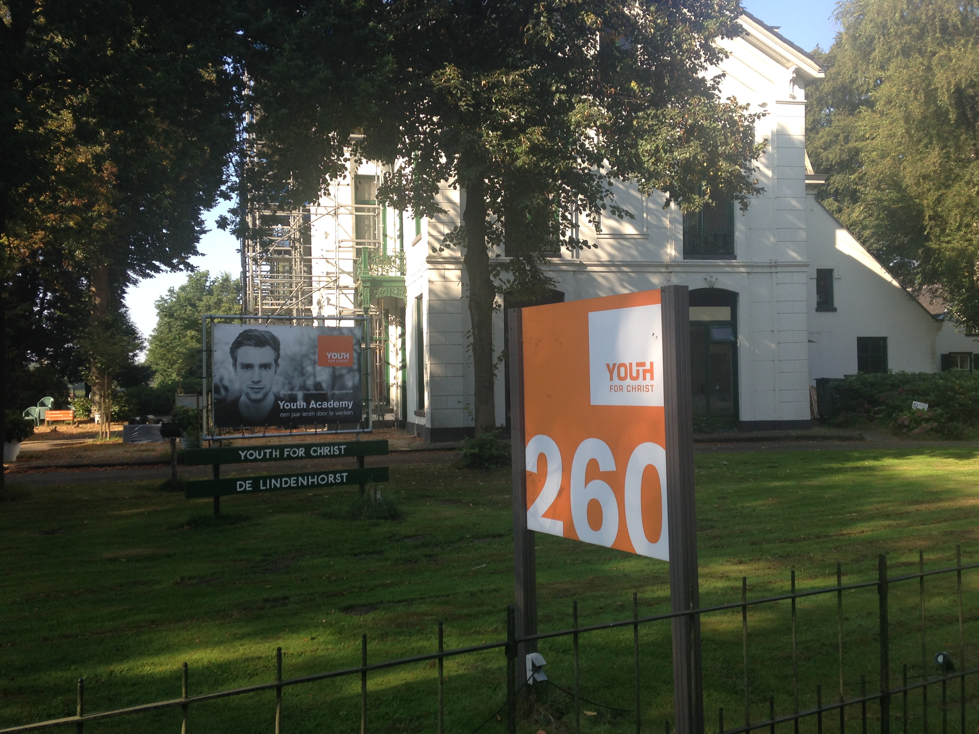 De Lindenhorst, de headquarter of Youth for Christ Holland at the Hoofdweg 260 in Driebergen.